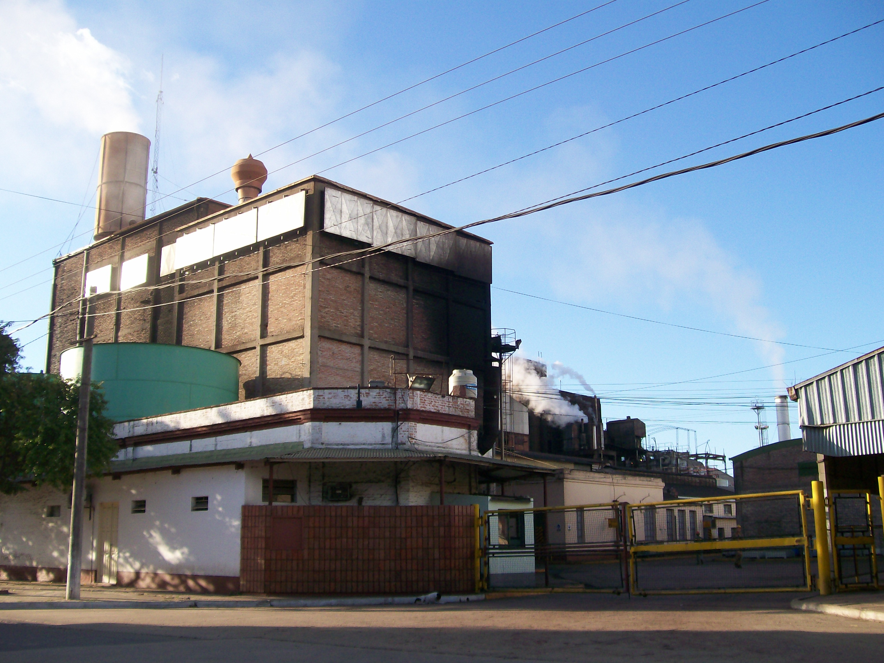 Tannin factory in Puerto Tirol, Chaco, Argentina. This is one of the most important job sources in Puerto Tirol, which developed around it.